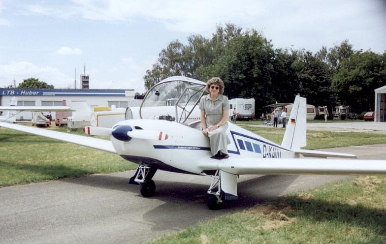 Schleicher AS-K16 motor glider at Speyer-Edry airfield, Germany, showing the retractable undercarriage and canopy opening sideways